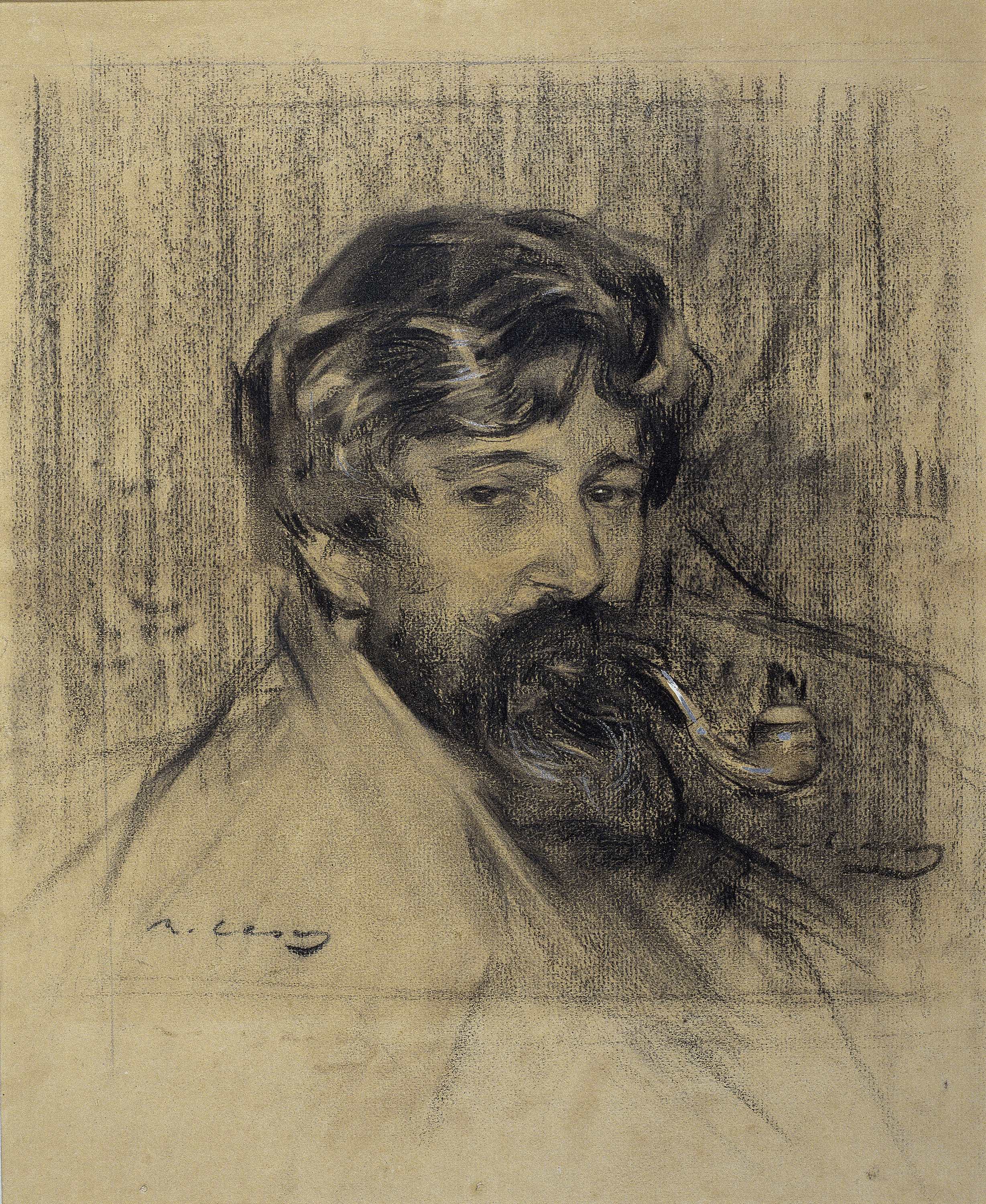 Portrait by Ramon Casas conserved at MNAC in Barcelona.